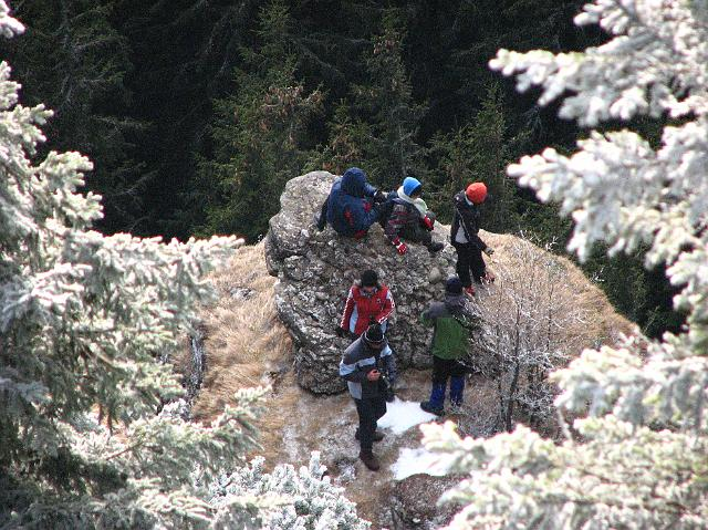 Ştefan cel Mare University in Suceava - students of the Faculty of History and Geography in practice in Ceahlău Mountains.